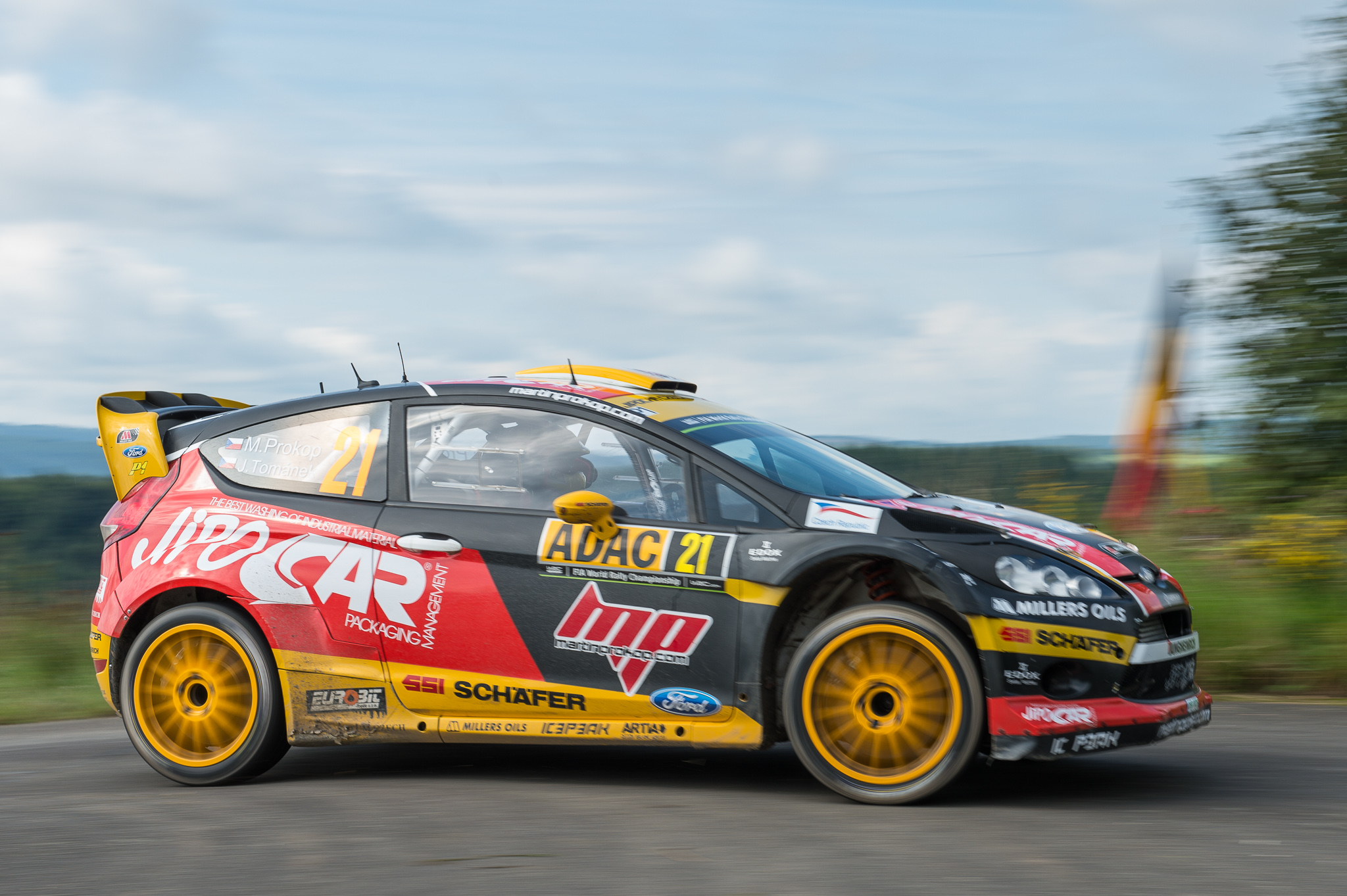 ADAC Rallye Deutschland 2014,Dhrontal,FIA,FIA World Rally Championship,Ford Fiesta RS WRC,Jan Tomanek,Jipocar Czech National Team,Martin Prokop,Motorsport,Rally,Rallye,SS17,WP17,WRC